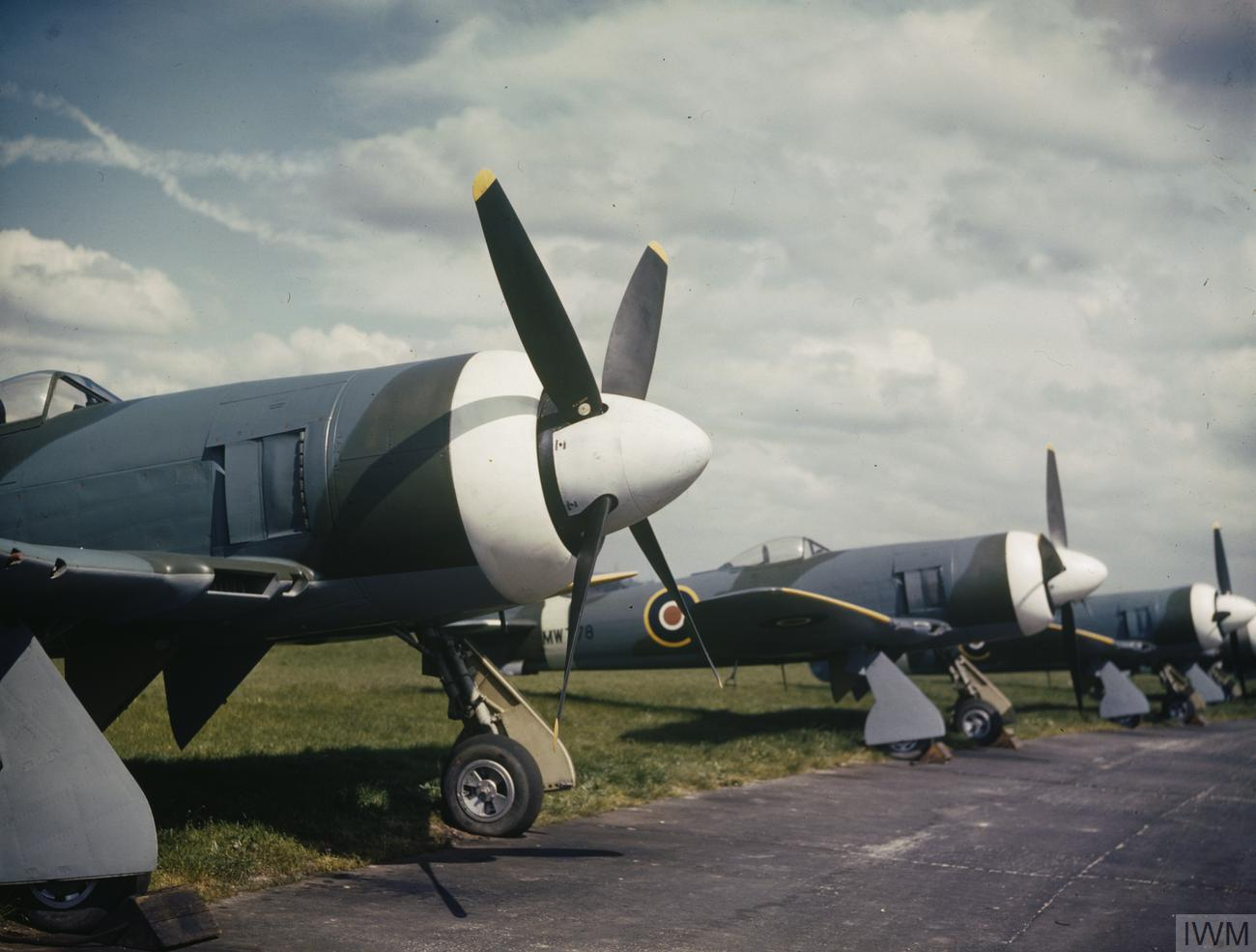 Royal Air Force Hawker Tempest Mark II aircraft lined up beside the runway at the Hawker Aircraft Ltd factory at Langley, Berkshire (UK).